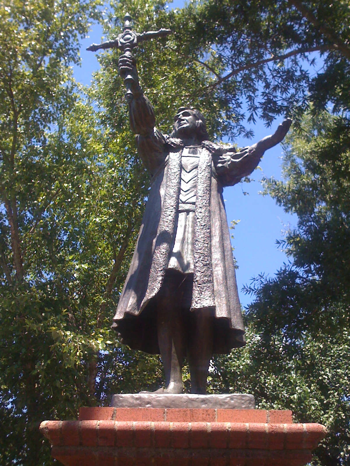 on the canal trail in Columbia SC